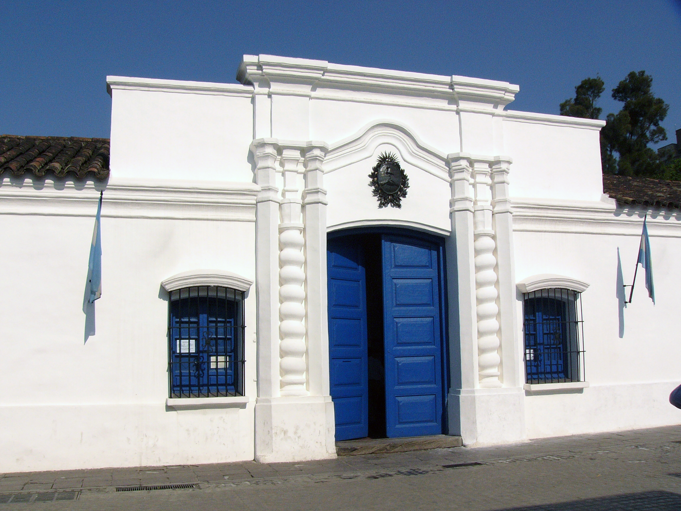 Independence House (Casa de la Independencia) in Tucumán, Argentina